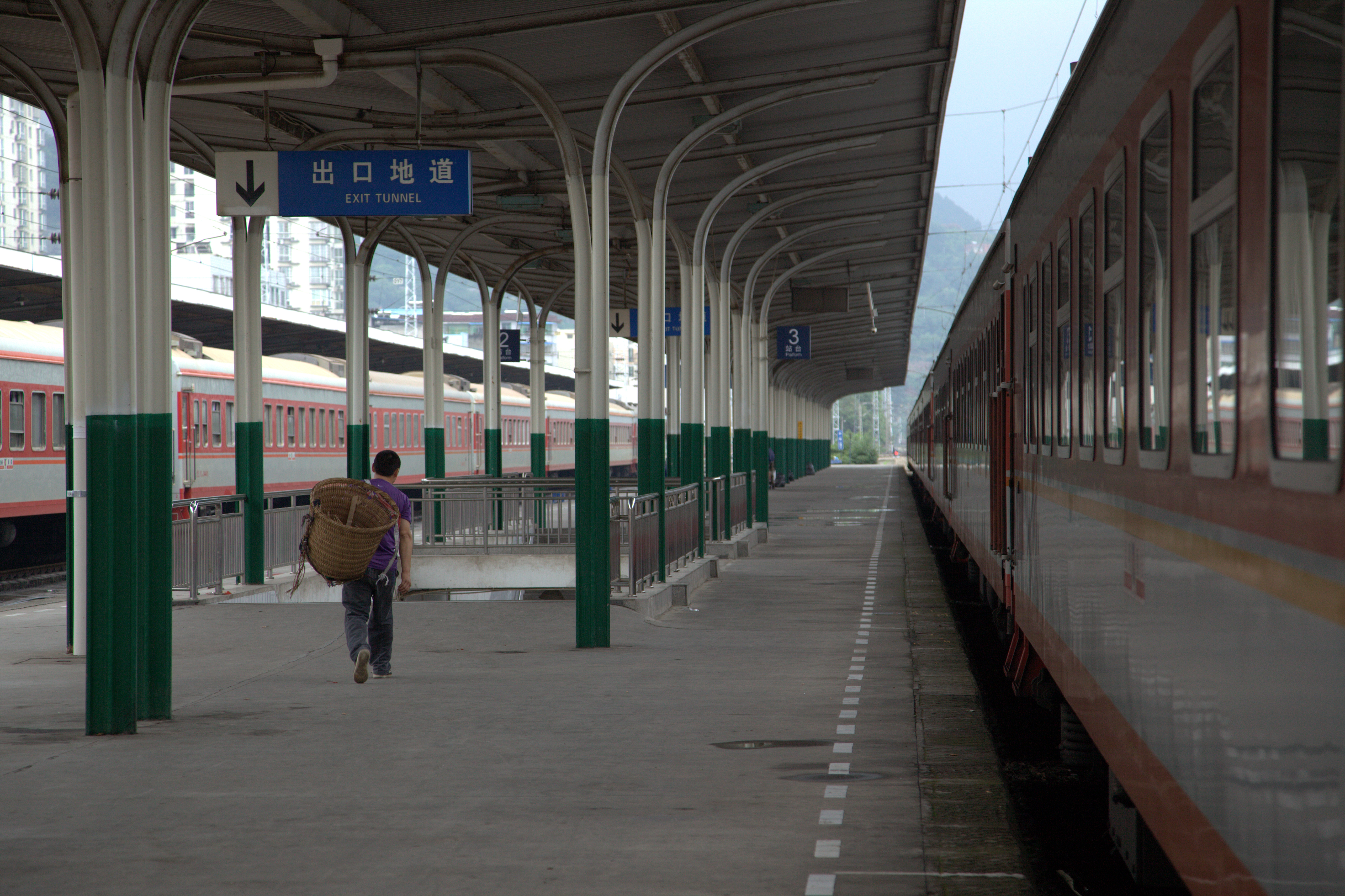 Very few passengers board the K165 at a small town station on the way from Xi'an to Kunming. One remains on the platform and returns to the terminal.